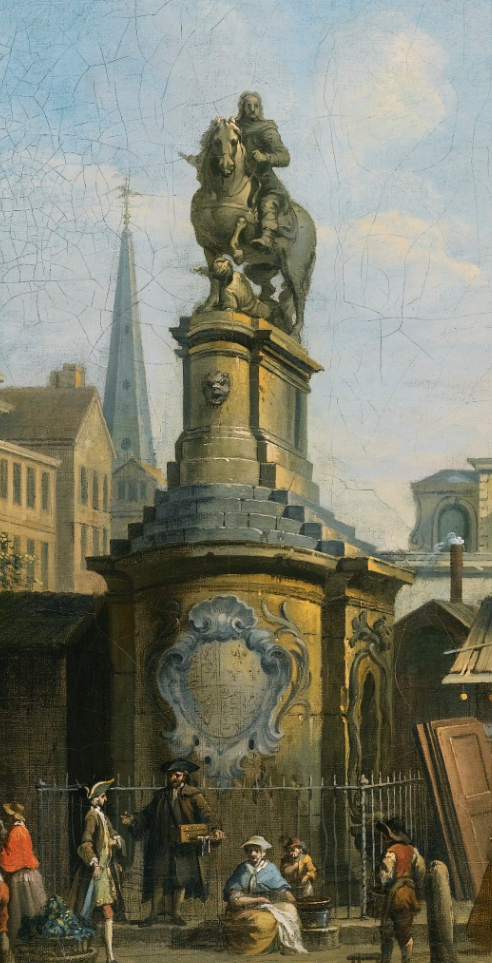 Detail of an oil painting of the Stocks Market in central London. The statue was originally made by an unknown Italian sculptor as a monument to John Sobieski, King of Poland. The statue was erected at Stocks Market in 1672 to represent King Charles II trampling Oliver Cromwell under his horse's hooves, with the head recarved by Jasper Latham. The market closed in 1737 and the statue was later moved to Newby Hall in Yorkshire.[1]